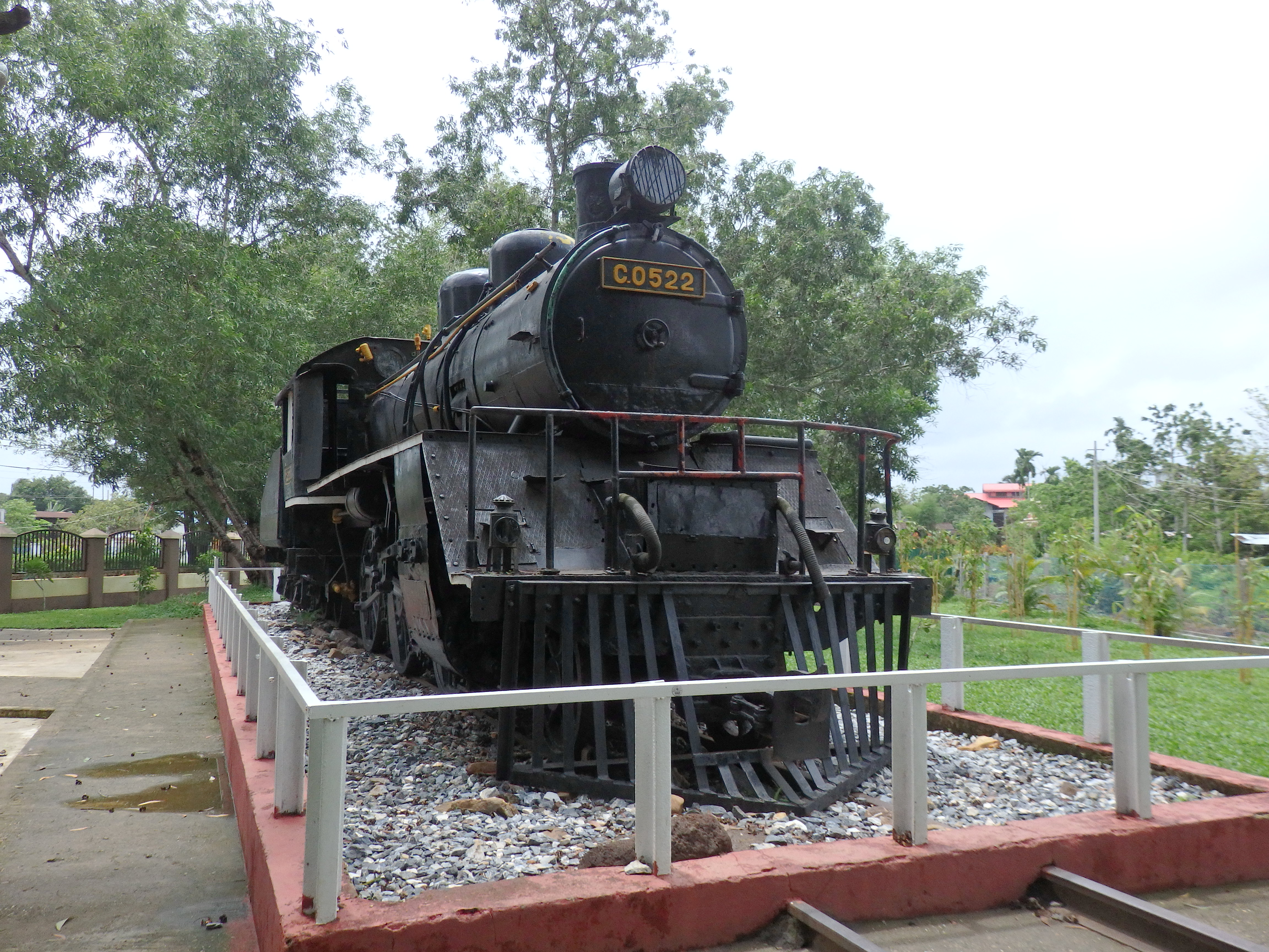 The Death Railway Museum